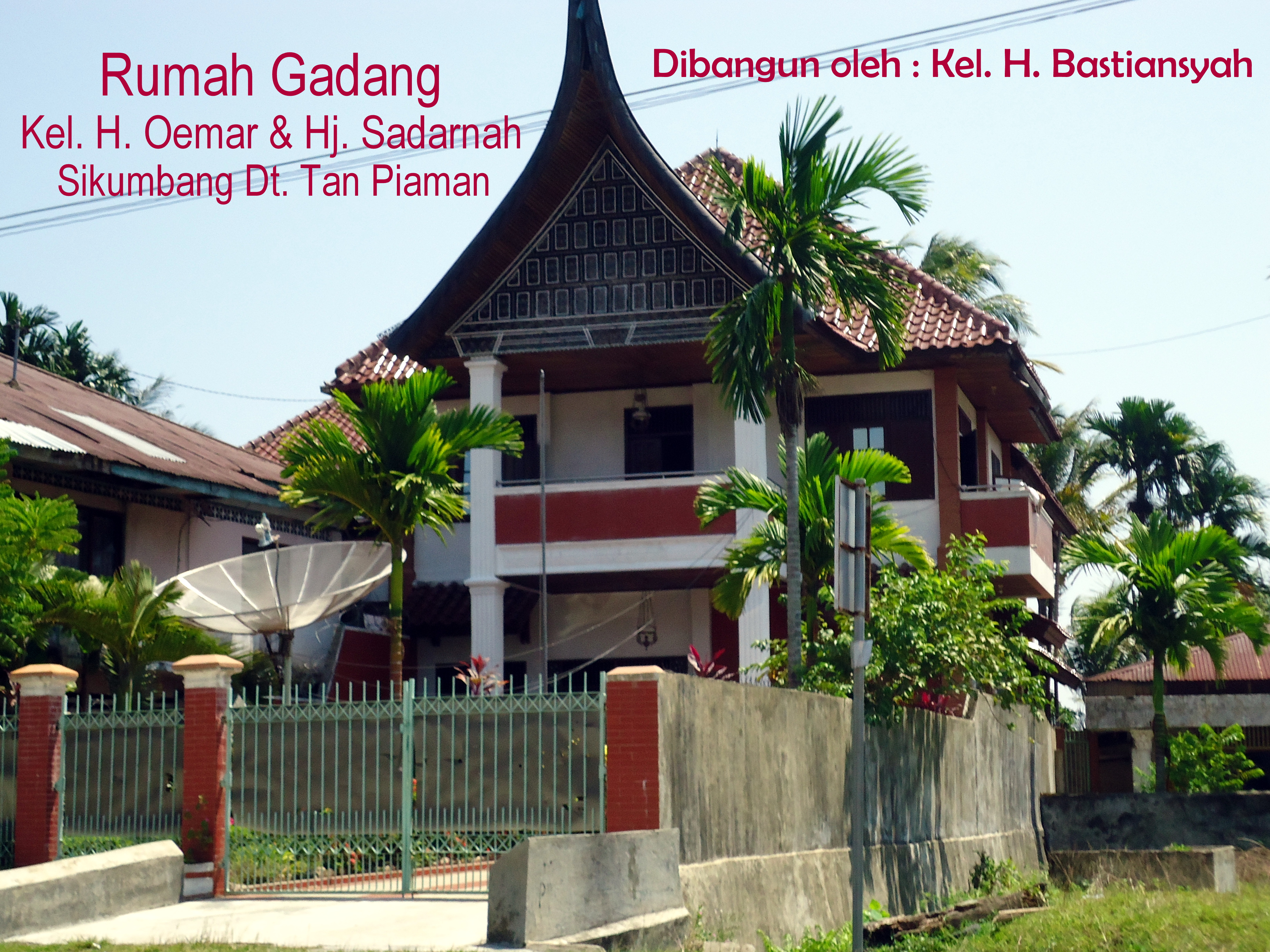 Rumah Gadang Suku Sikumbang DT. Tan Piaman Batang Kapas